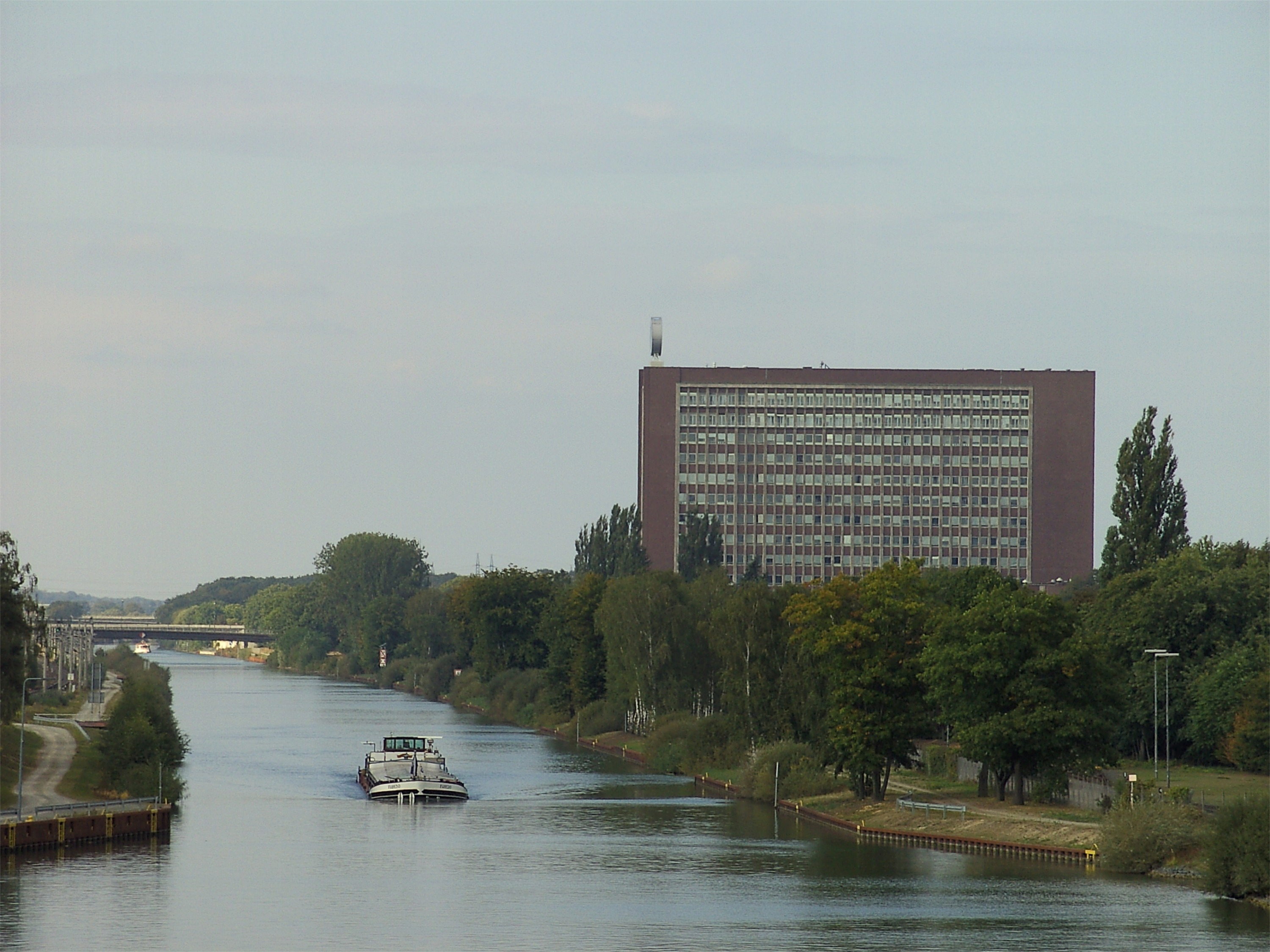 Mittellandkanal and a part of the VW Wolfsburg industrial plant in Wolfsburg (Germany).